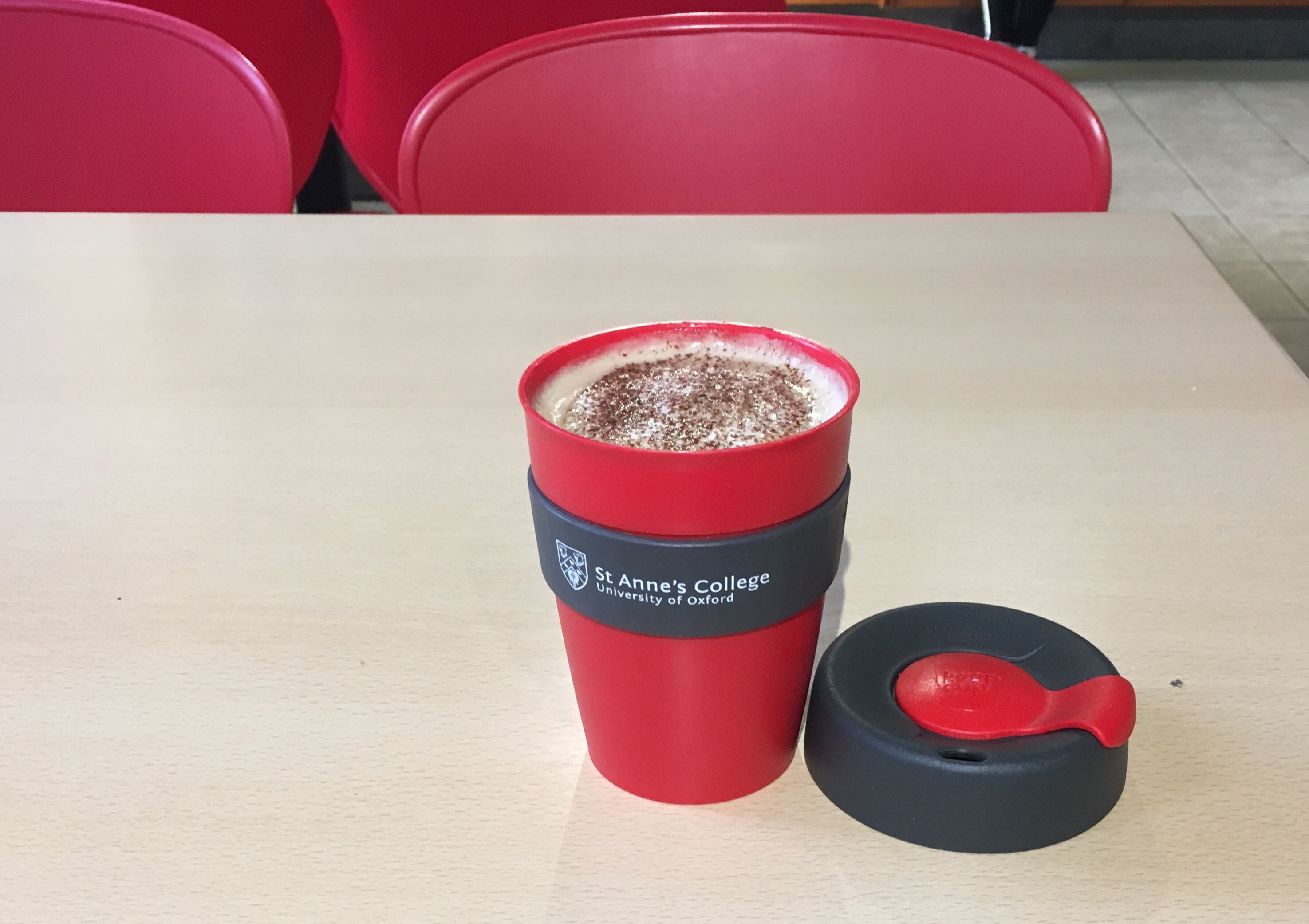 A KeepCup in St Anne’s College colours, with coffee.